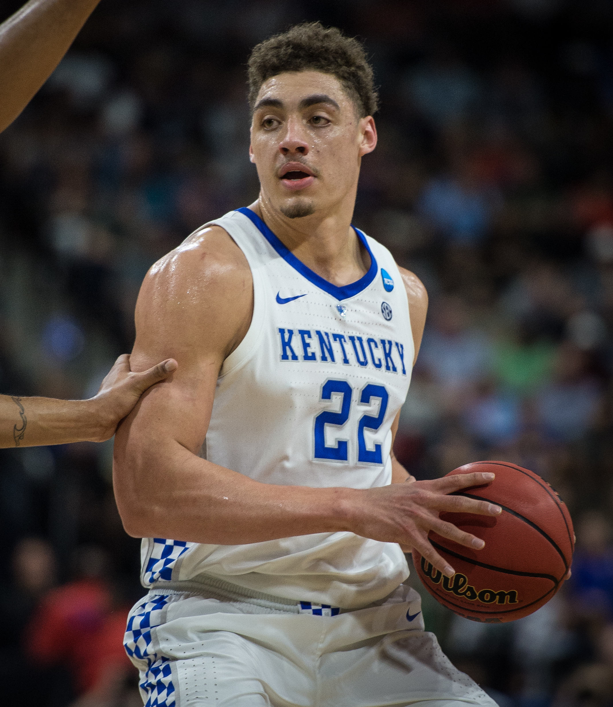 Reid Travis vs. Wofford